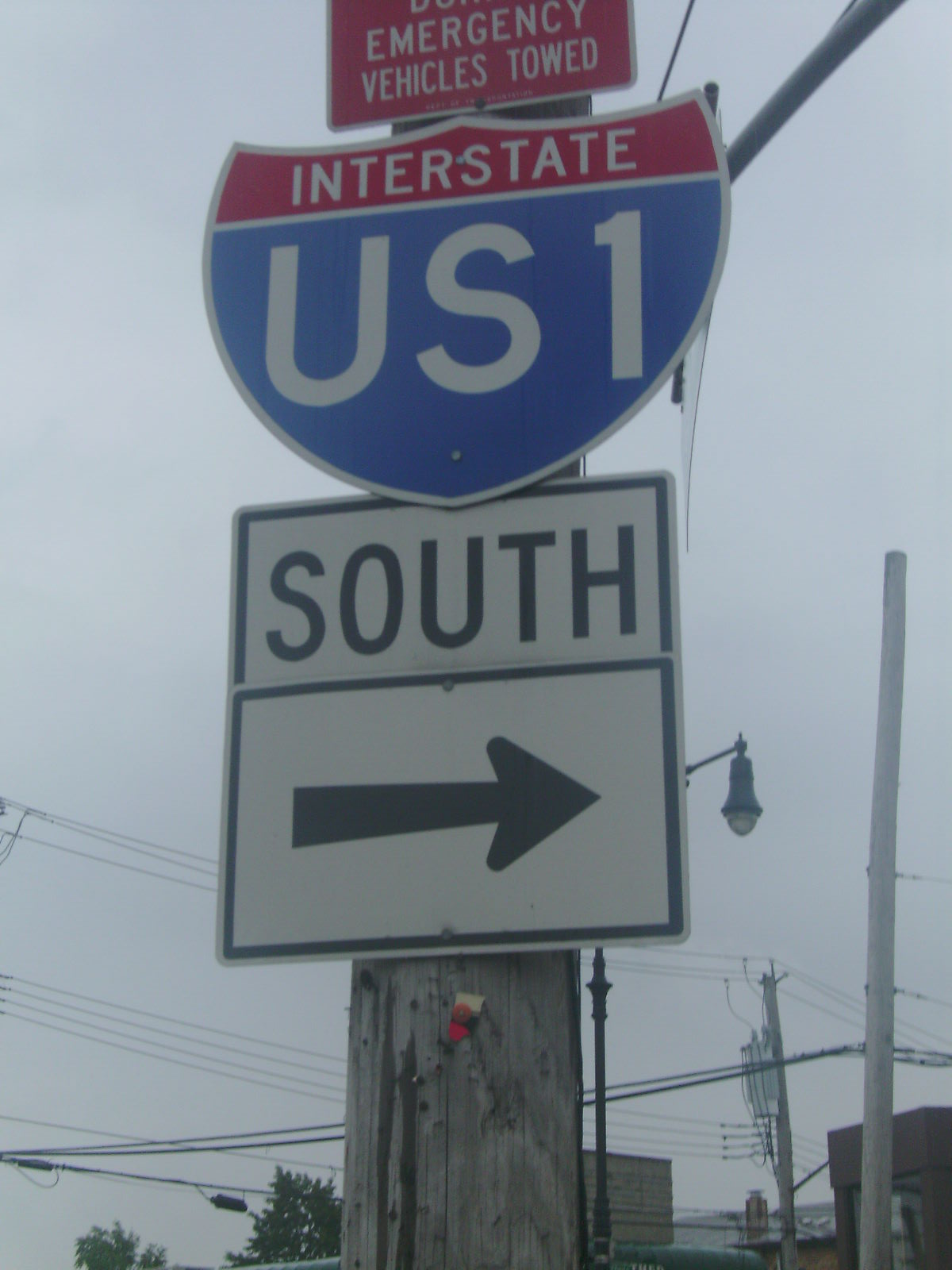 An error Interstate US1 shield on eastbound Gun Hill Road at the intersection with US 1 (Boston Post Road) in the Bronx.